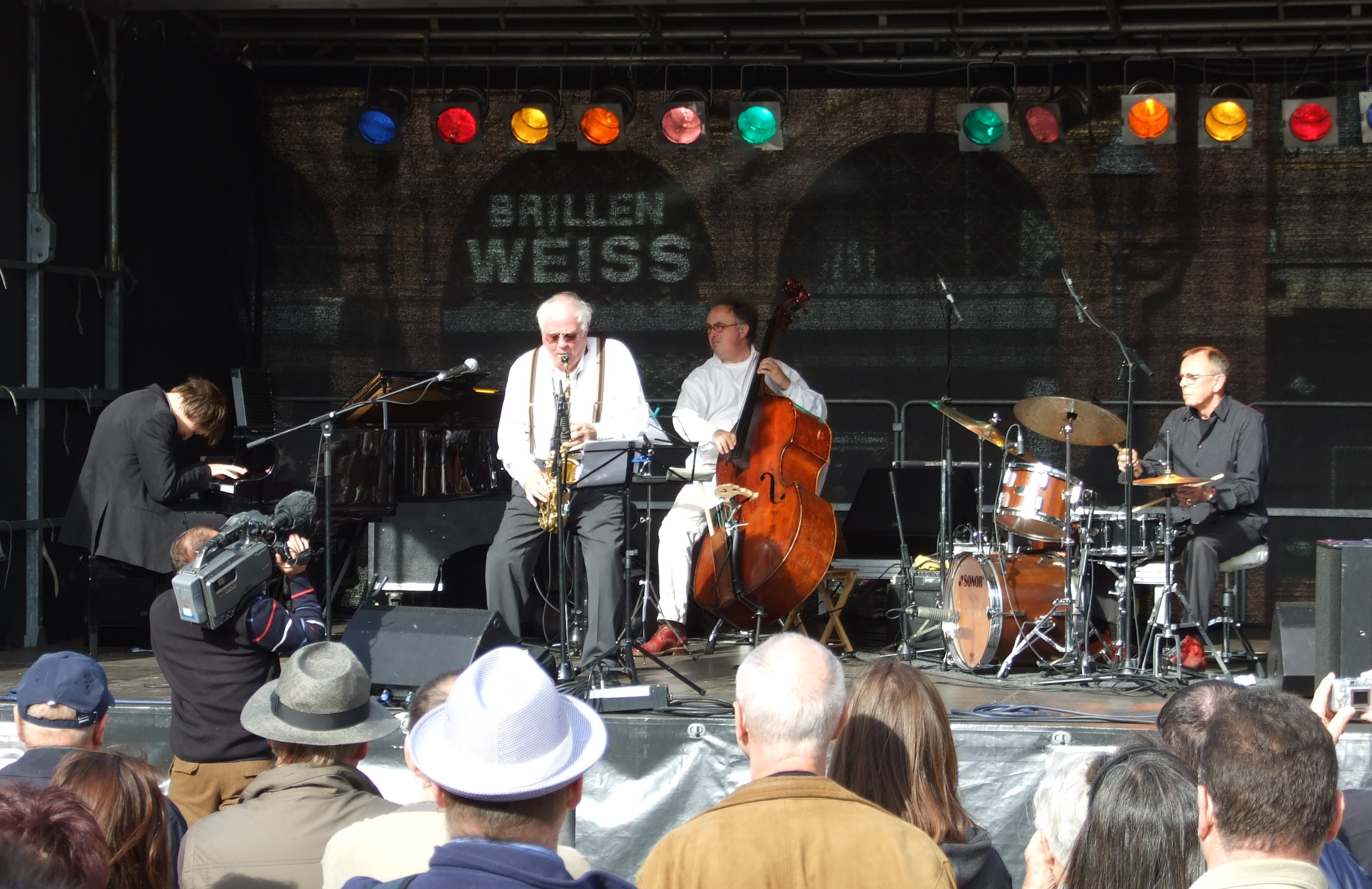 "Emil Mangelsdorff Quartett" at "Roemerberg" in Frankfurt on National Day (2009), by "Jazz zum Dritten".